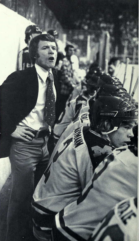 Photograph of Dan Farrell